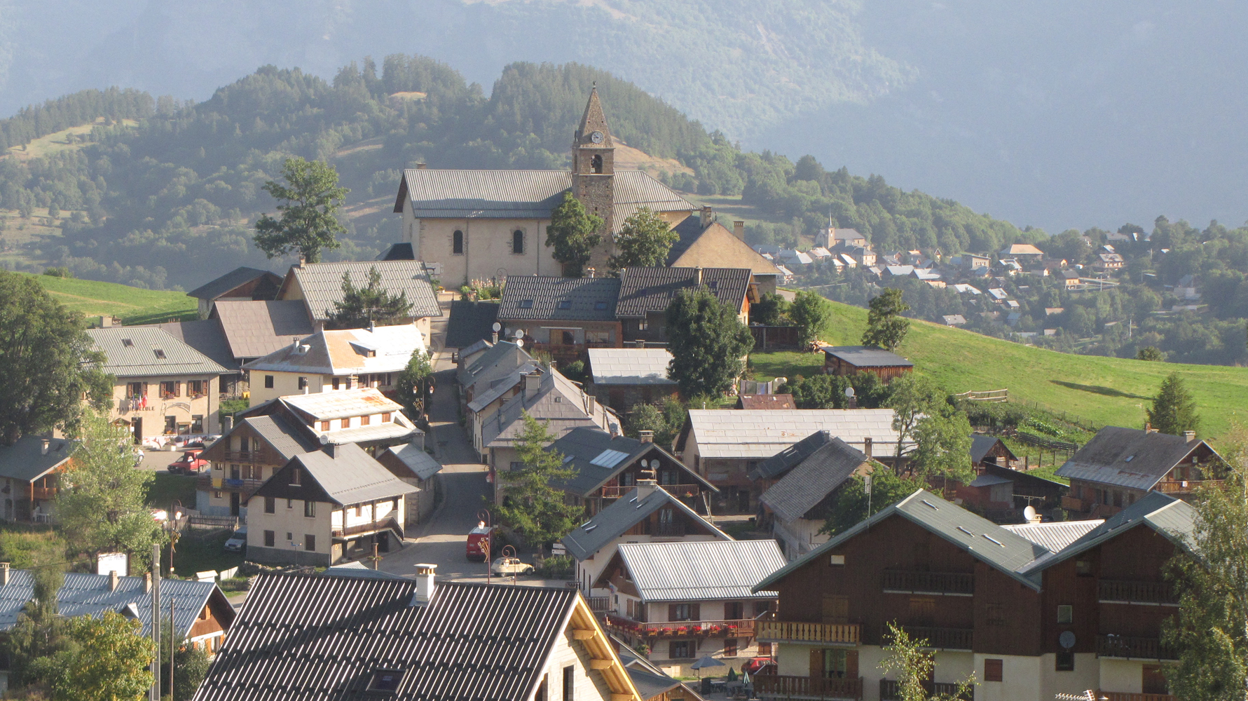 Albiez-Montrond's mountain village, and Albiez-le-jeune's mountain village in the background, during summer